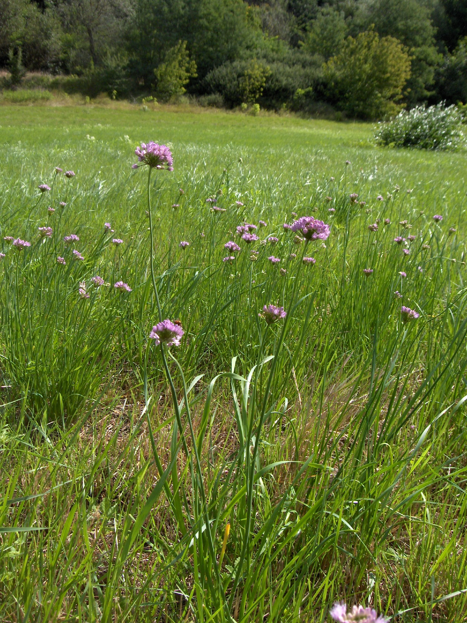 allium angulosum on a hay meadow near the river of Ipoly.